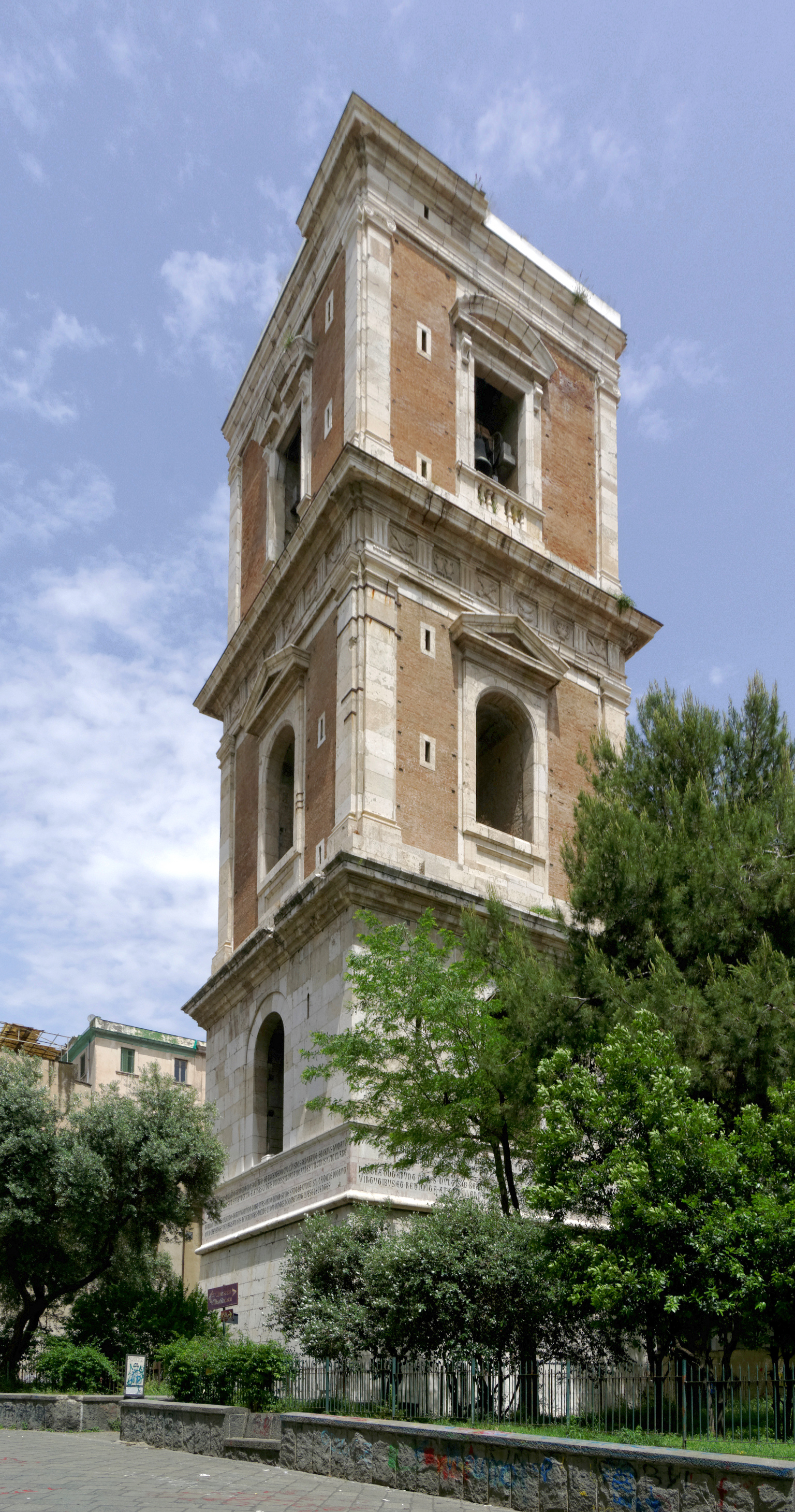 Naples, Santa Chiara